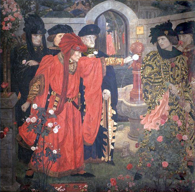 This is a photograph of the mural installed in the East Corridor of the Palace of Westminster,[1] presented by Earl Beauchamp.[2] The painting is William Shakespeare's version of the splitting of nobles into the factions of York and Lancaster, sparking the Wars of the Roses in 15th-century England. Richard Plantagenet, 3rd Duke of York and his followers select the white rose, while the Duke of Somerset and his sole companion took the red. Copies of this painting were made available to English society; Sir John Holding had a copy,[3] and it was reproduced in various publications.[4][5]